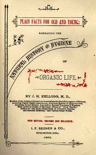 Plain Facts For Old And Young: Embracing The Natural History And Hygiene Of Organic Life, 1892 reprint